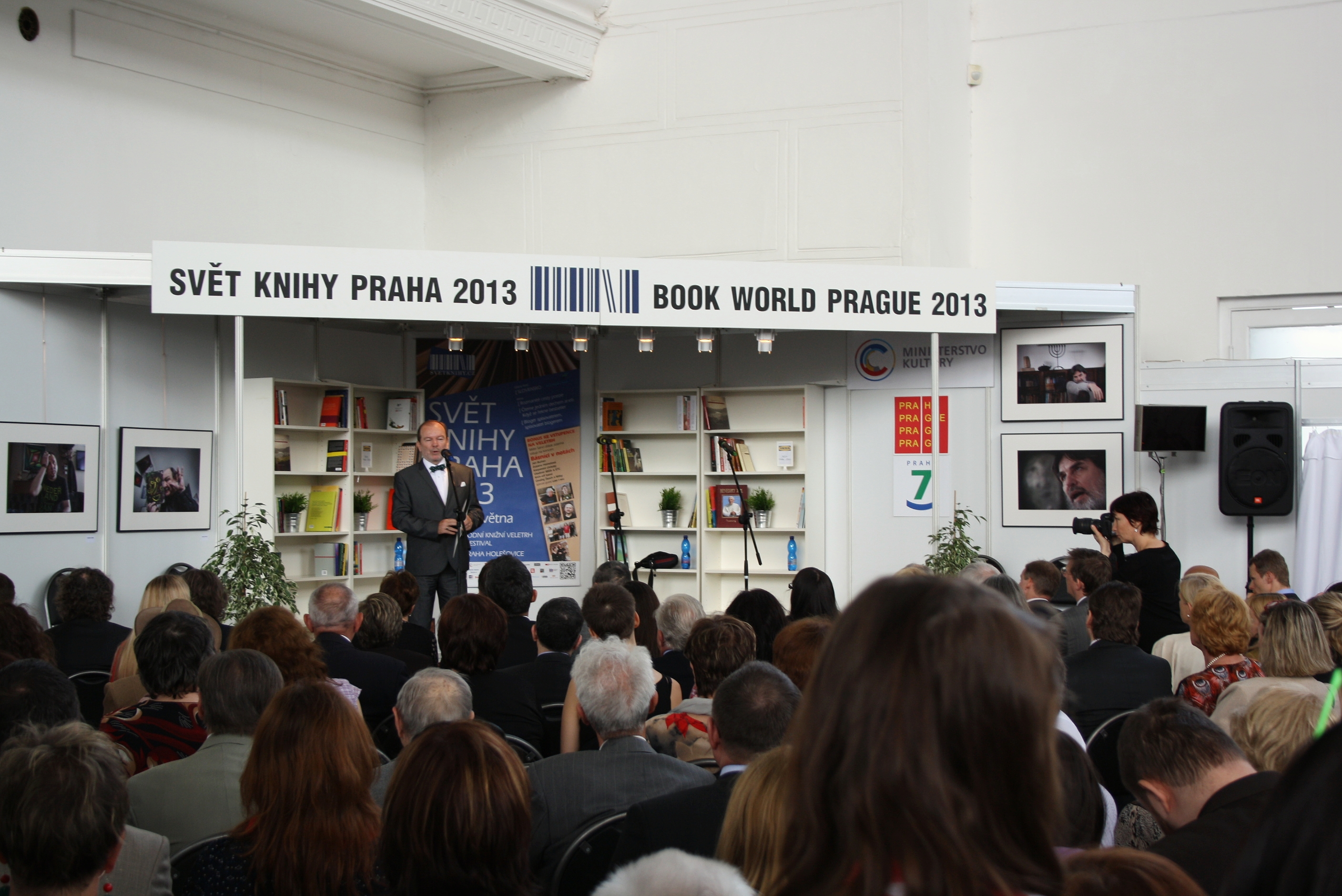 Česky: Svět knihy 2013 - zahájení festivalu Personality rights warning This work depicts one or more identifiable persons. The use of depictions of living or deceased persons may be restricted by laws regarding personality rights. The extent of these restrictions depends on jurisdiction. Personality rights restrictions apply independently of copyright. Before using this content, please ensure that the intended use does not infringe any personality rights under applicable laws. You are solely responsible for ensuring that you do not infringe someone else's personality rights. See our general disclaimer.